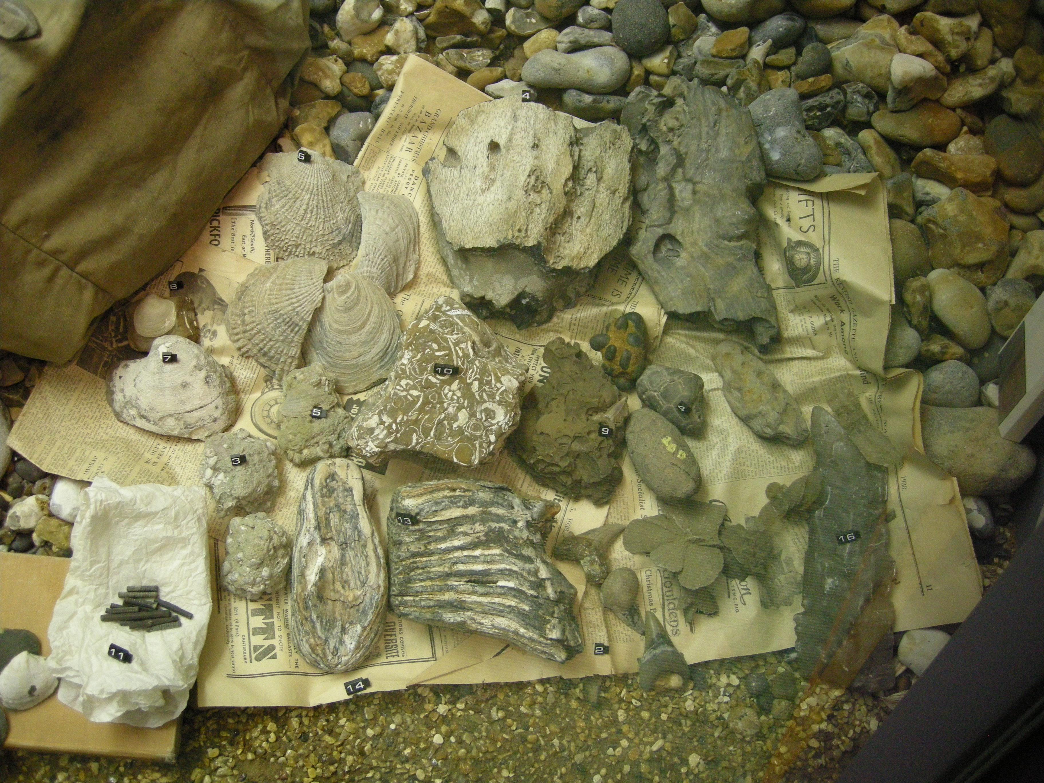 Fossil exhibit at Herne Bay Museum and Gallery. These were found in 1939 at Bishopstone by J.E. Cooper, and consist of sea creatures, seeds, wood etc. 50-60 million years old. They were washed out of the cliffs by the sea.